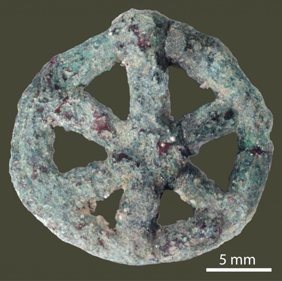 Mehargarh locket